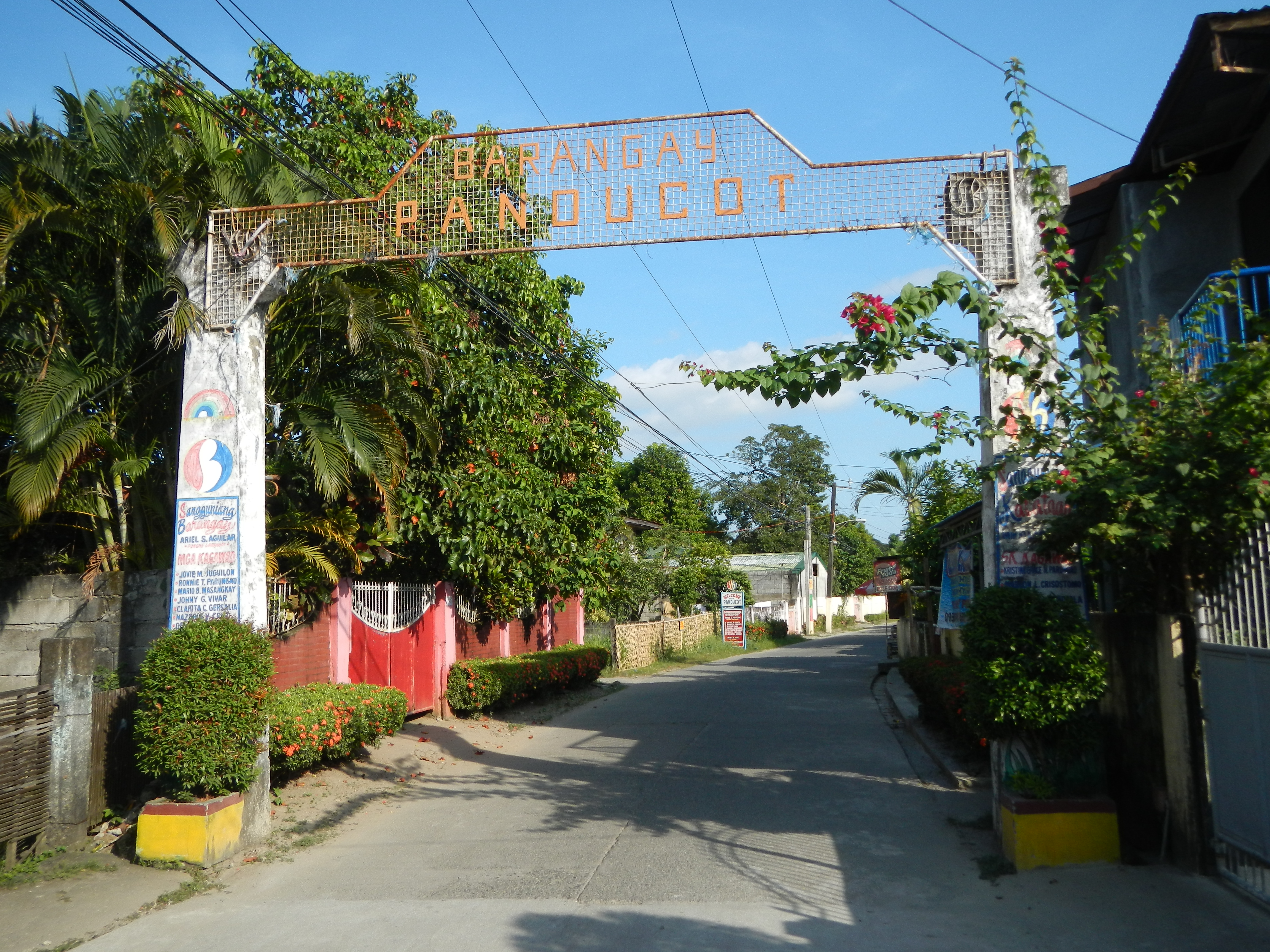 Panducot Calumpit, Bulacan Barangay Panducot, Bulacan - Welcome Arch (located in ] Barangay Meyto, Calumpit, Bulacan - its Day Care Center with recycled Chritmas trees, Elementary School with School children in the Philippines) - landmarks are the dilapidated worn out Old House with oldest Mabolo Tree, the Barangay Hall, Old and New, Chapel and IFI Church, guarded by the Dogs of the Philipppines.